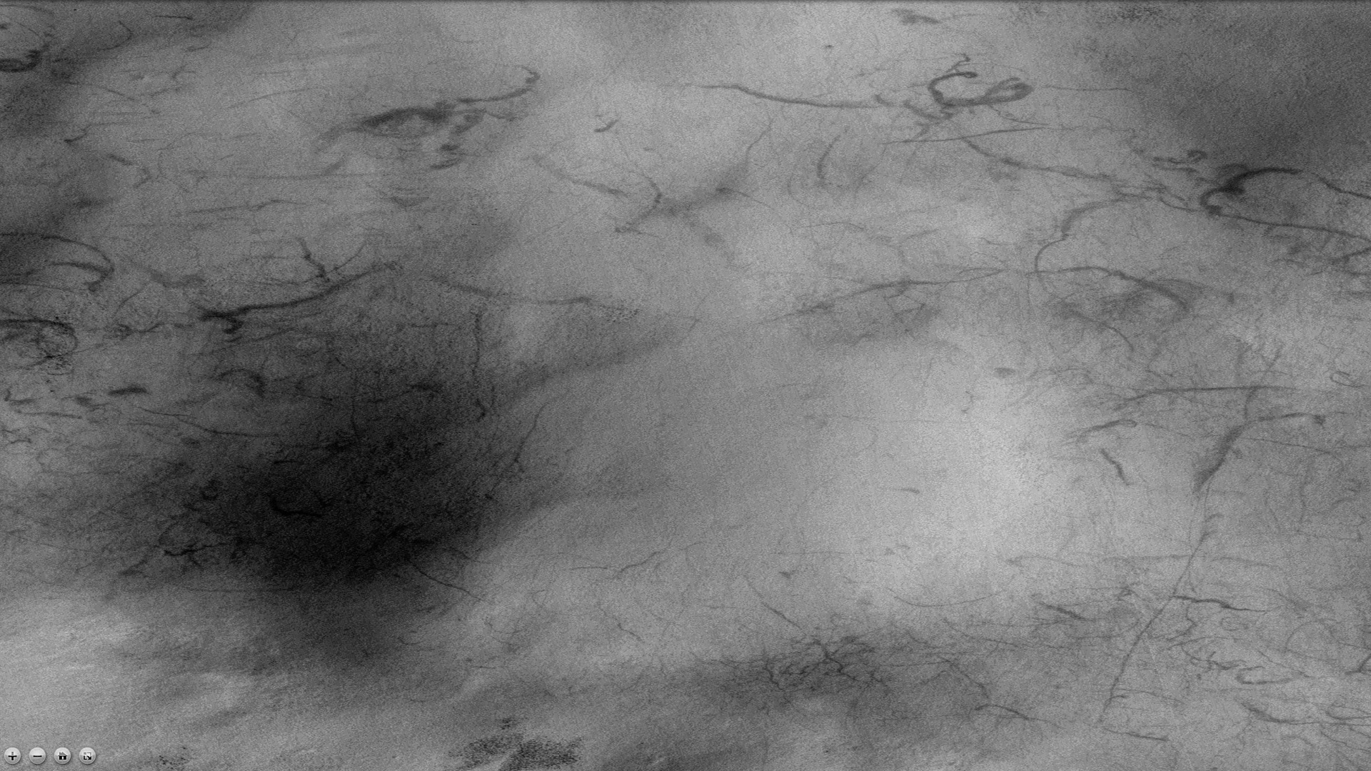 Weinbaum crater showing dust devil tracks, as seen by ctx